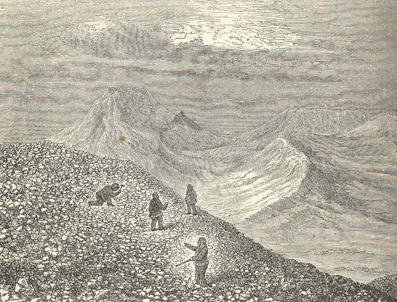 Kronebjerg (Sabine Island) Kronenberg Subject: Kronenberg (Greenland), Glaciers--Greenland Geographic Subject: Greenland--Kronenberg Tag: Polar